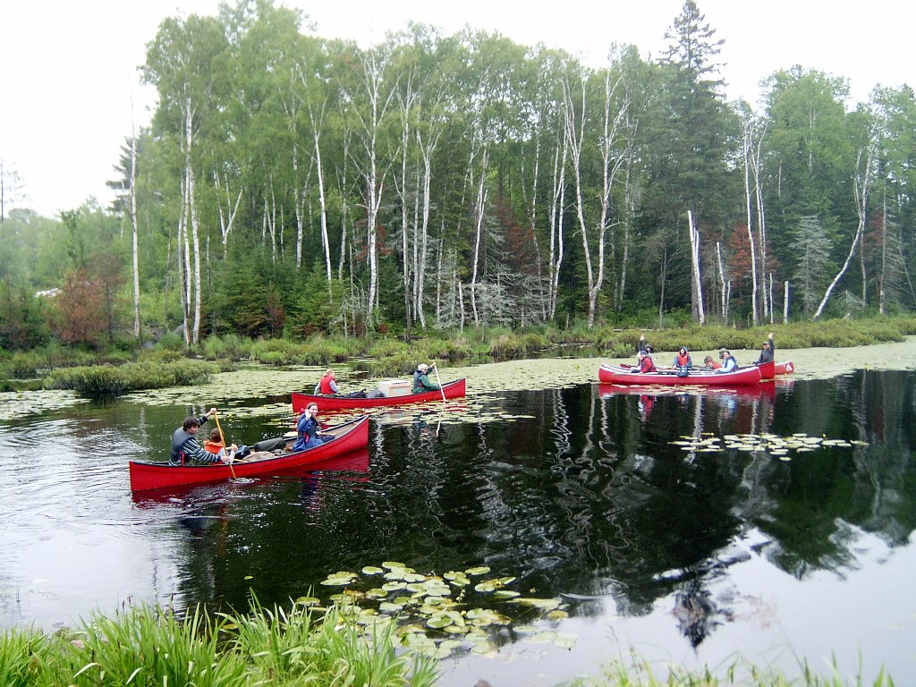 Picture of part of Columbia's current campus at Main Street West